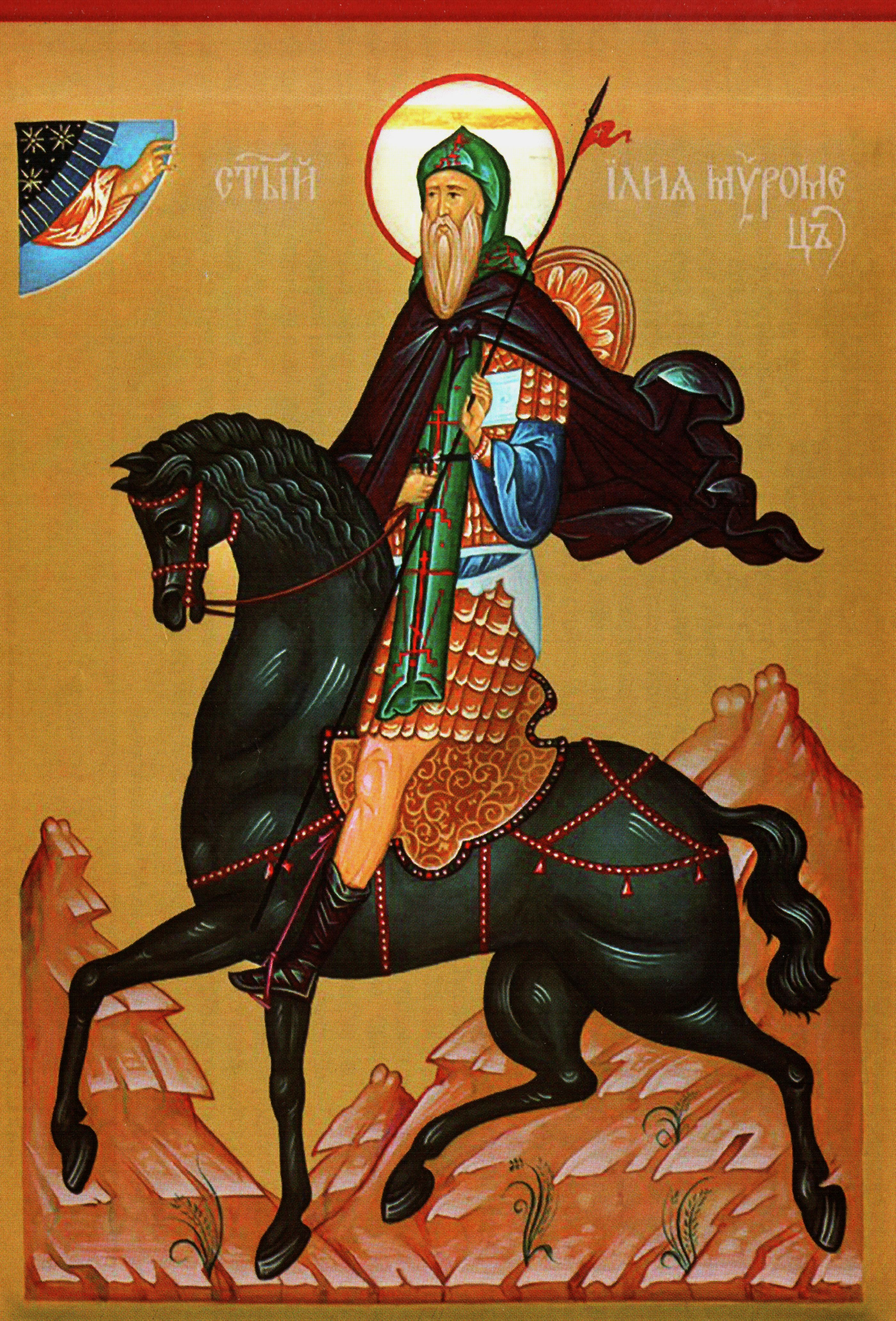 Russian saint Ilia Muromets Russian icon. End 19 c.